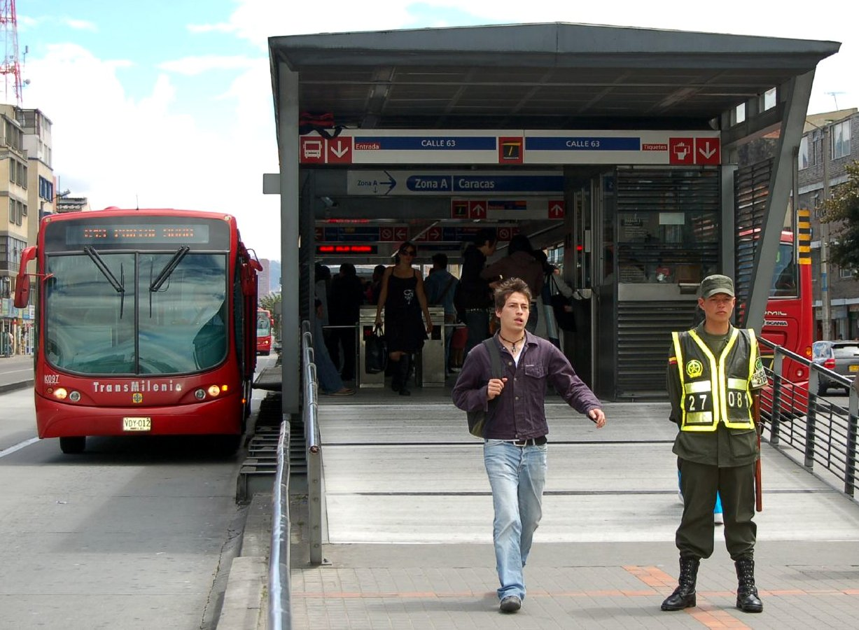 TransMilenio bus station Calle 63. Visible: Payment, Bus and Police